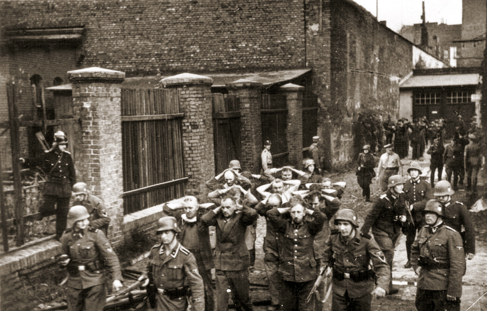 Defenders of the Polish Post Office in Gdansk, Poland 1939